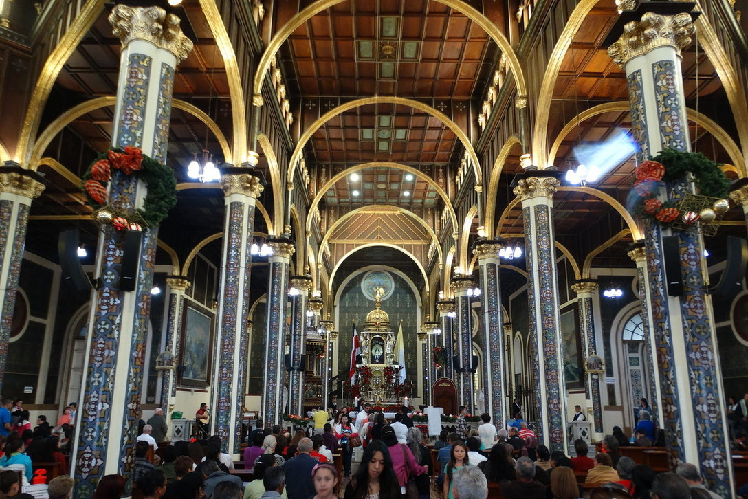 Interior of the Cathedral in Cartago (Costa-Rica)